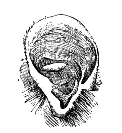 Fig. 1. Lemuroid Ear.